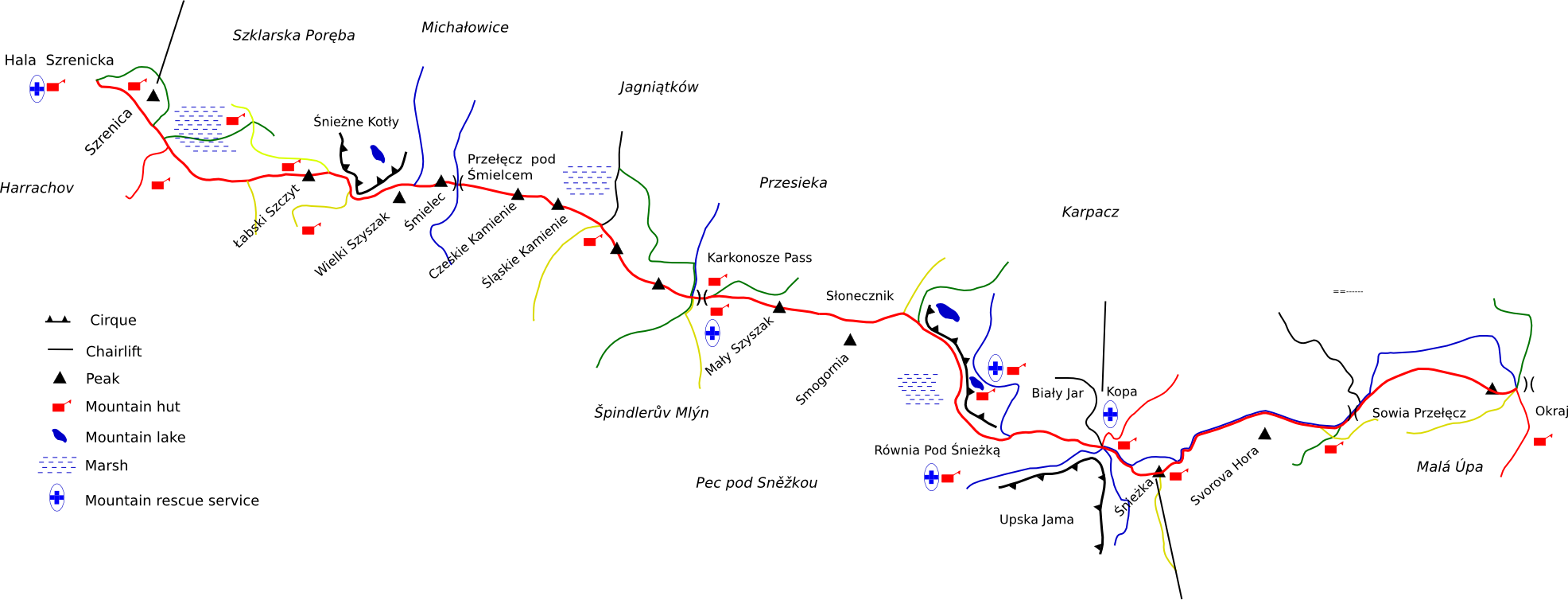 Trail scheme